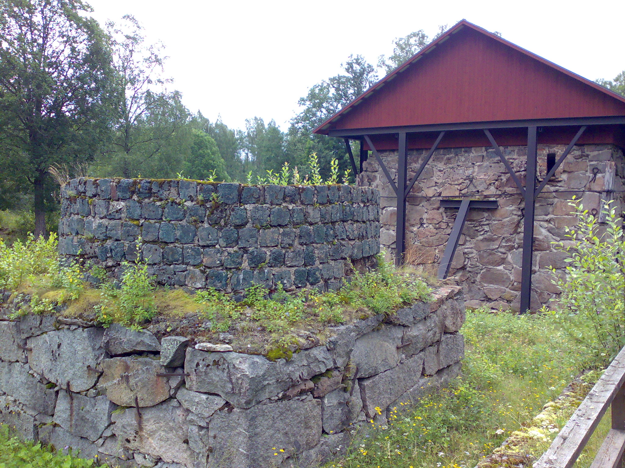 Bosjön, Filipstads kommun, Sweden. Ironworks Bosjöhyttan.